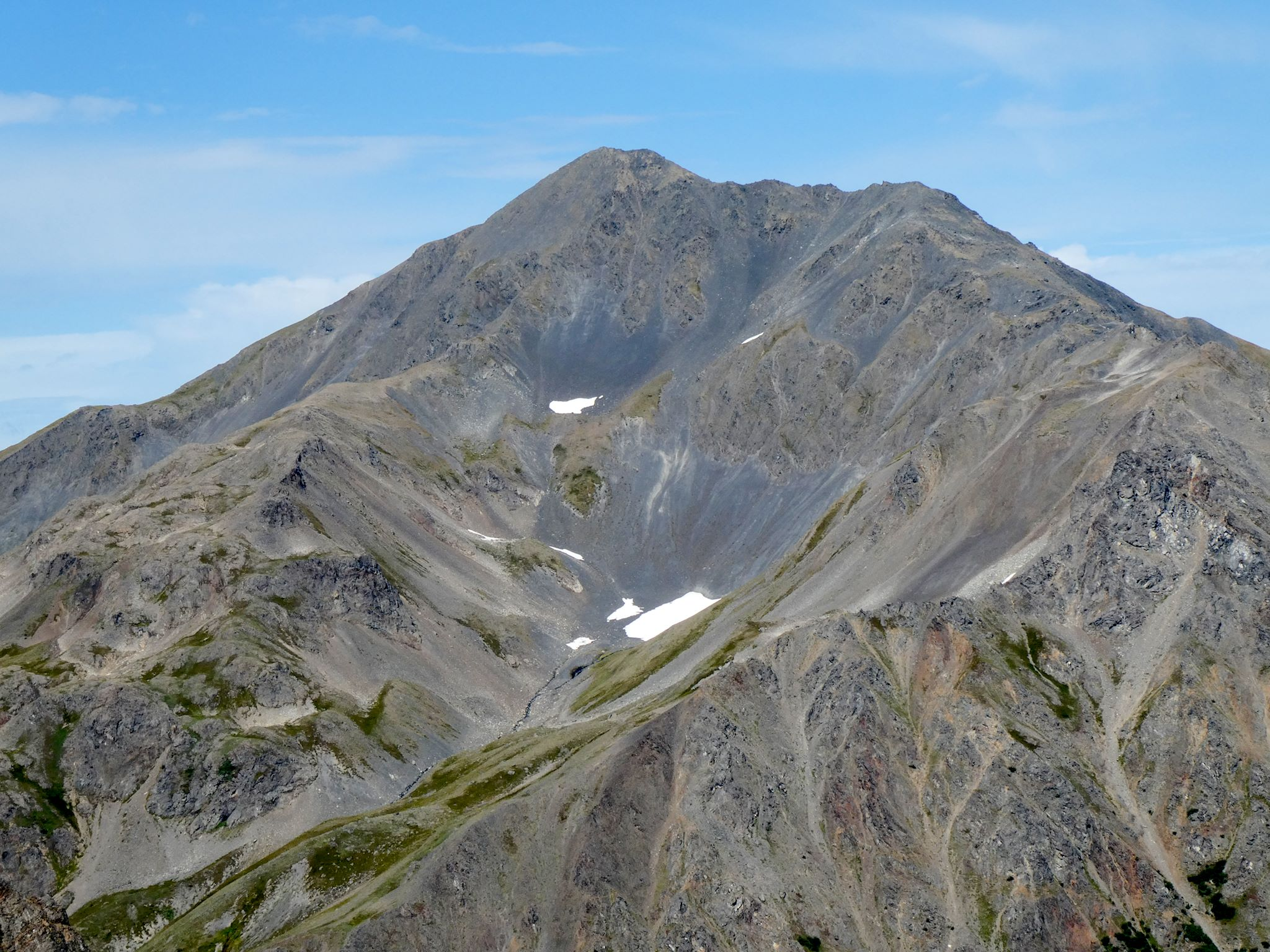 Phoenix Peak, near Seward, Alaska